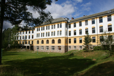 Landeskogen Peace Center